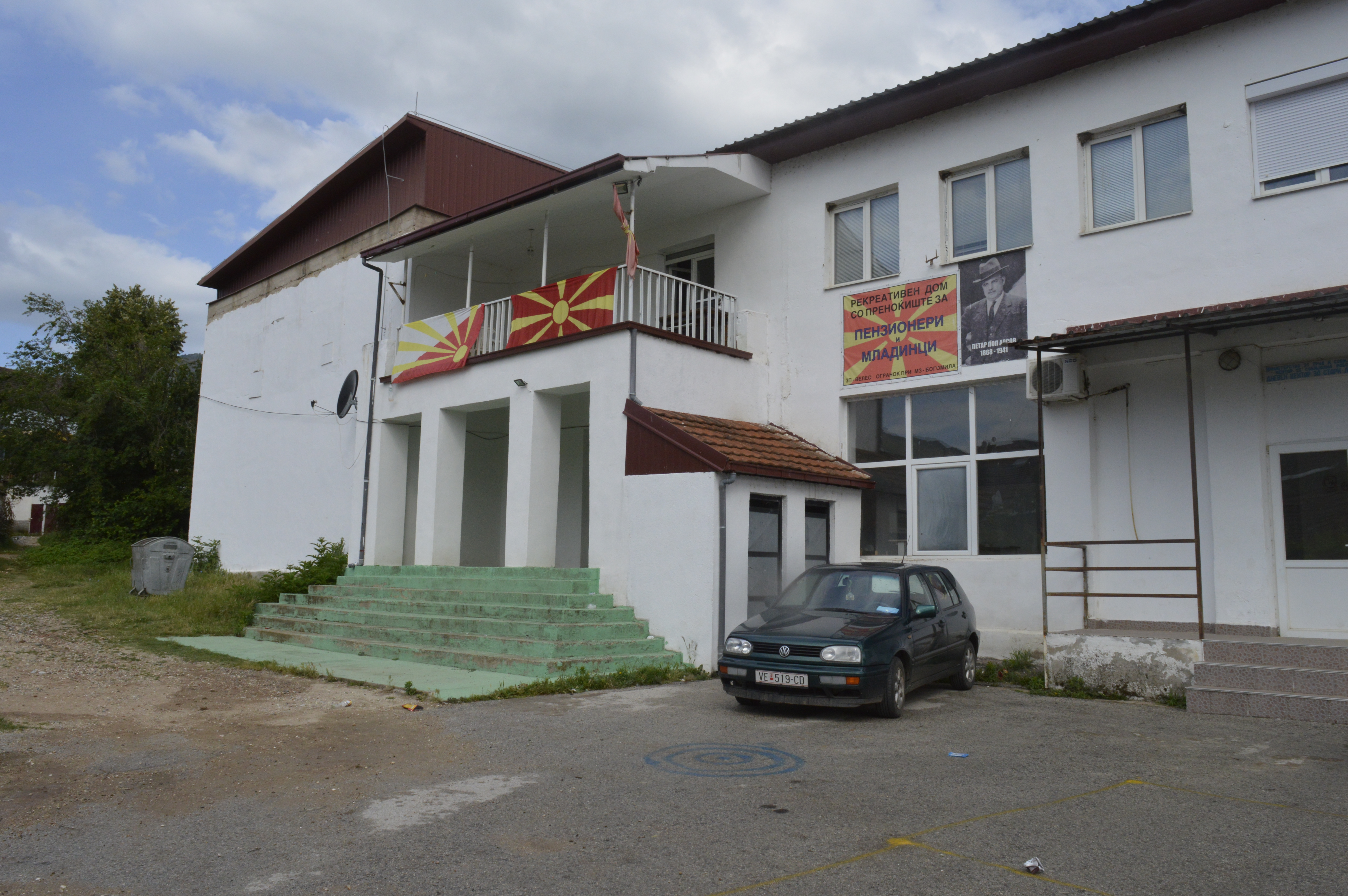 Community center of the village Bogomila